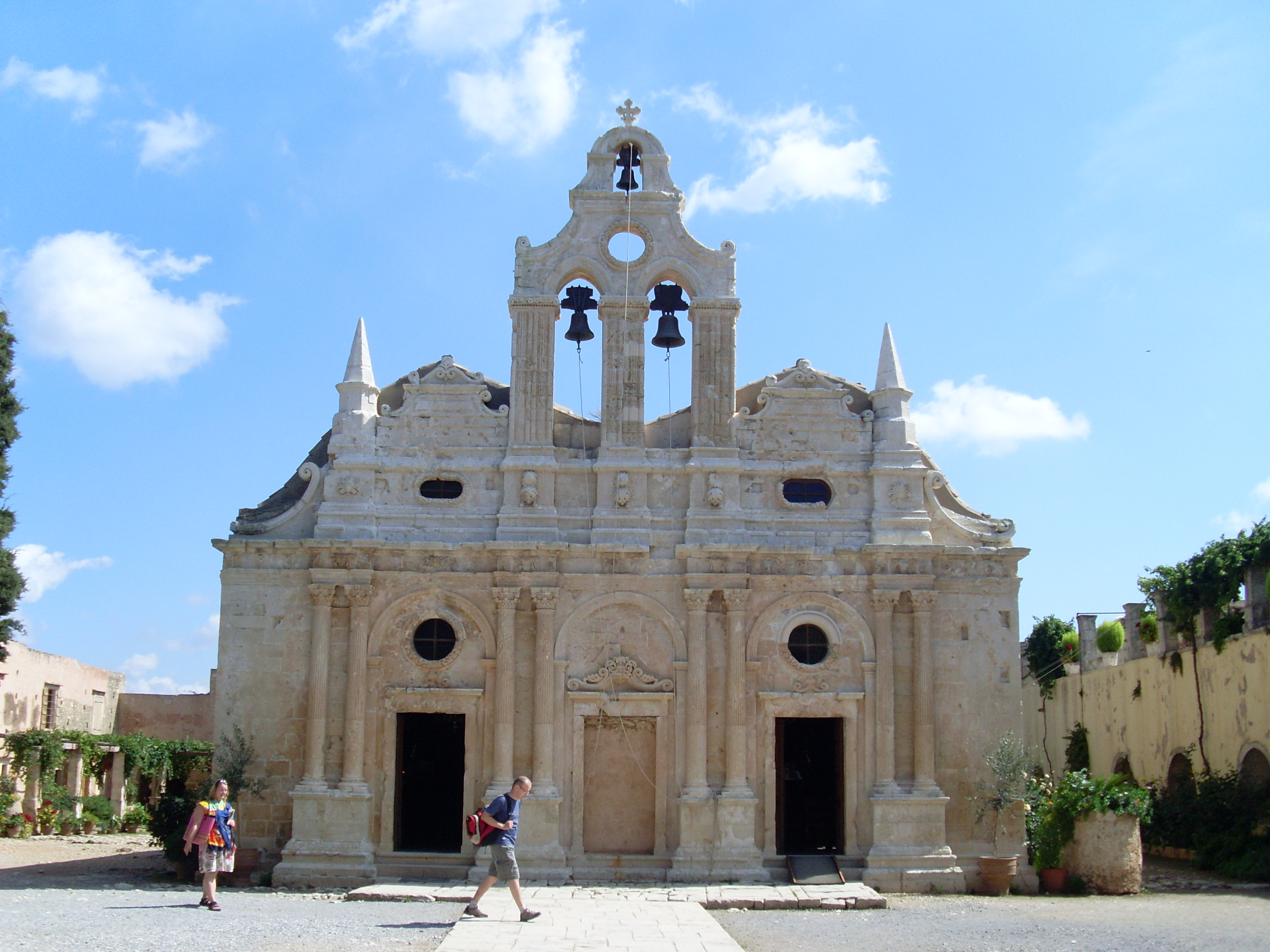 Arkadi monastery, Crete (Greece)